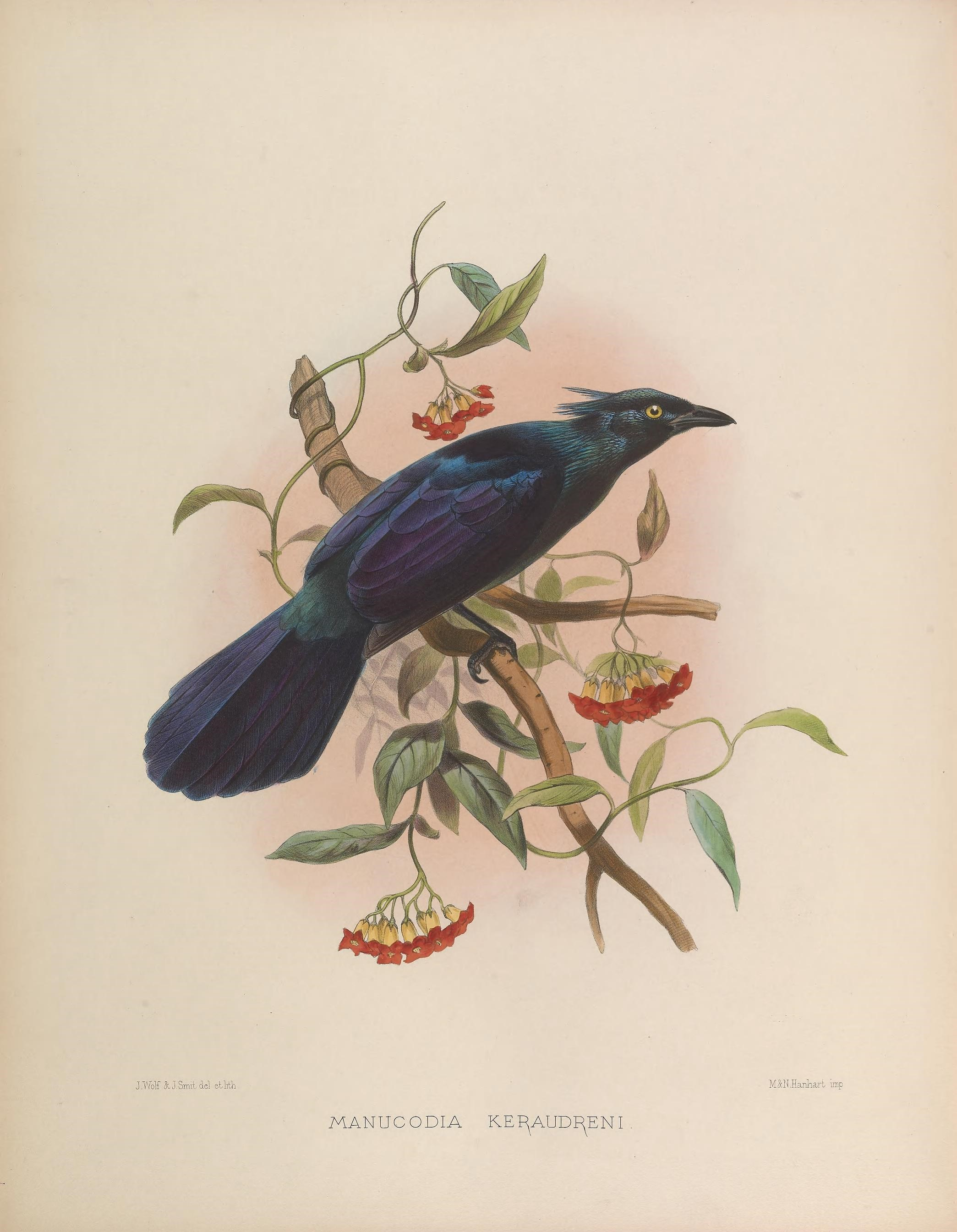 Drawing of 1873